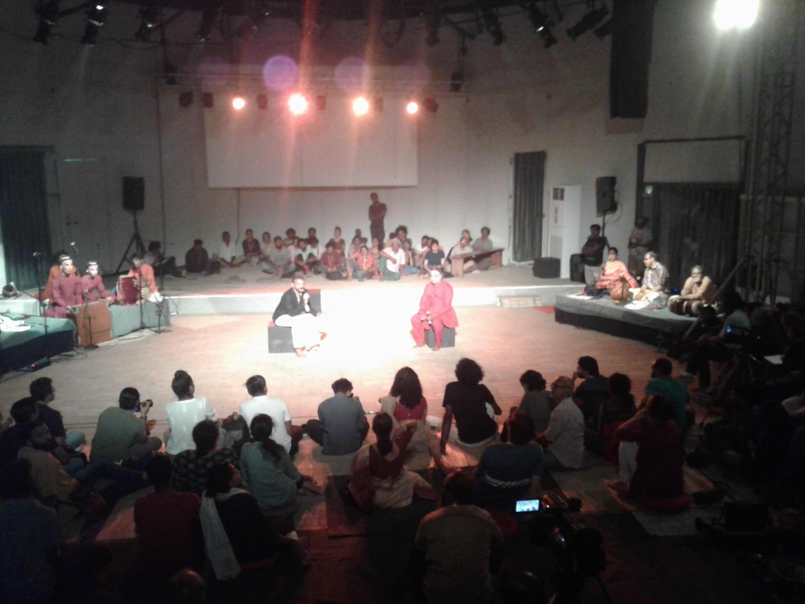 Karnatic Kattaikkuttu at Kochi muziris Biennale 2018